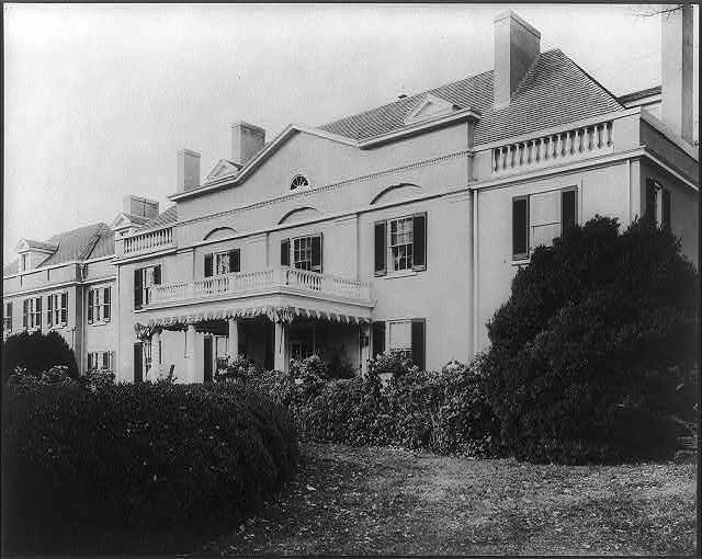 Title Friendship House Summary Photograph shows "Friendship," the estate of John R. McLean, Wisconsin Avenue at Porter House N.W., Washington, D.C., built in 1898. Contributor Names Johnston, Frances Benjamin, 1864-1952, photographer Created / Published [between 1898 and 1942] Subject Headings - Houses--Washington (D.C.)--1890-1950 Format Headings Photographic prints--1890-1950. Notes - Title and other information transcribed from caption card and item, with subsequent revisions. - Frances Benjamin Johnston Collection (Library of Congress). - Formerly Architecture Coll. - Hearst File. - Washington, D.C. Medium 1 photographic print. Call Number/Physical Location LOT 11727 [item] [P&P] Source Collection Johnston, Frances Benjamin, 1864-1952. Washington, D.C., architecture and views Repository Library of Congress Prints and Photographs Division Washington, D.C. 20540 USA Digital Id cph 3b09767 //hdl.loc.gov/loc.pnp/cph.3b09767 Library of Congress Control Number 2001698399 Reproduction Number LC-USZ62-62113 (b&w film copy neg.) Rights Advisory No known restrictions on reproduction. Online Format image Description 1 photographic print. | Photograph shows "Friendship," the estate of John R. McLean, Wisconsin Avenue at Porter House N.W., Washington, D.C., built in 1898. LCCN Permalink